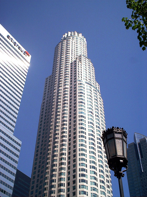 The US Bank Tower in Downtown Los Angeles.